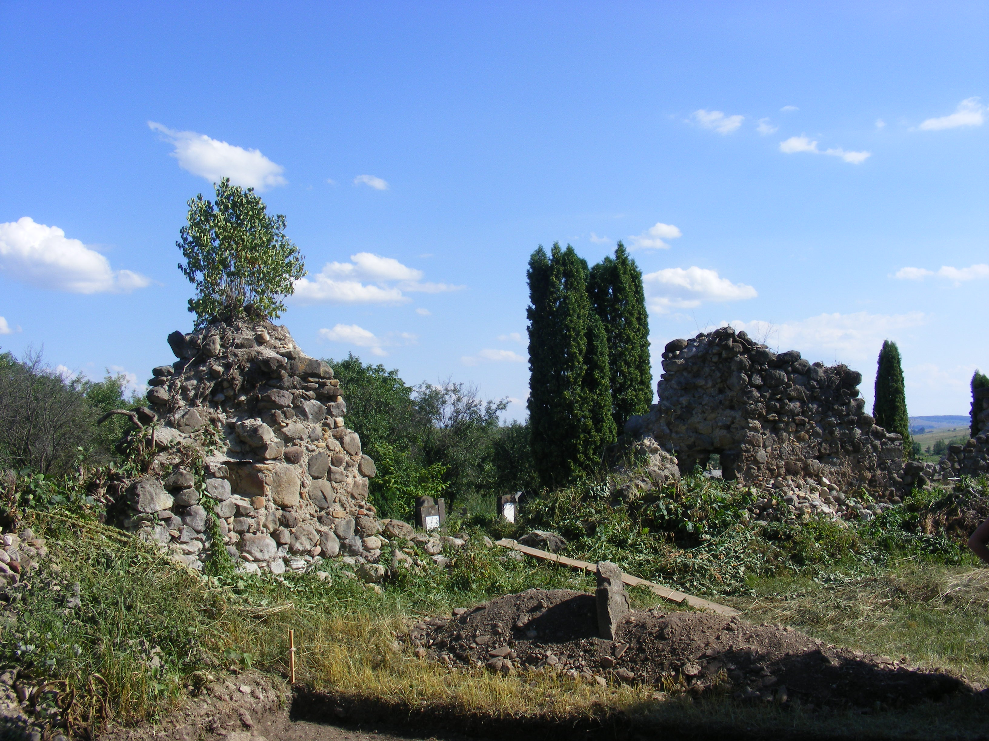 The ruins of the Homoródszentmárton unitarian church'es defence wall.